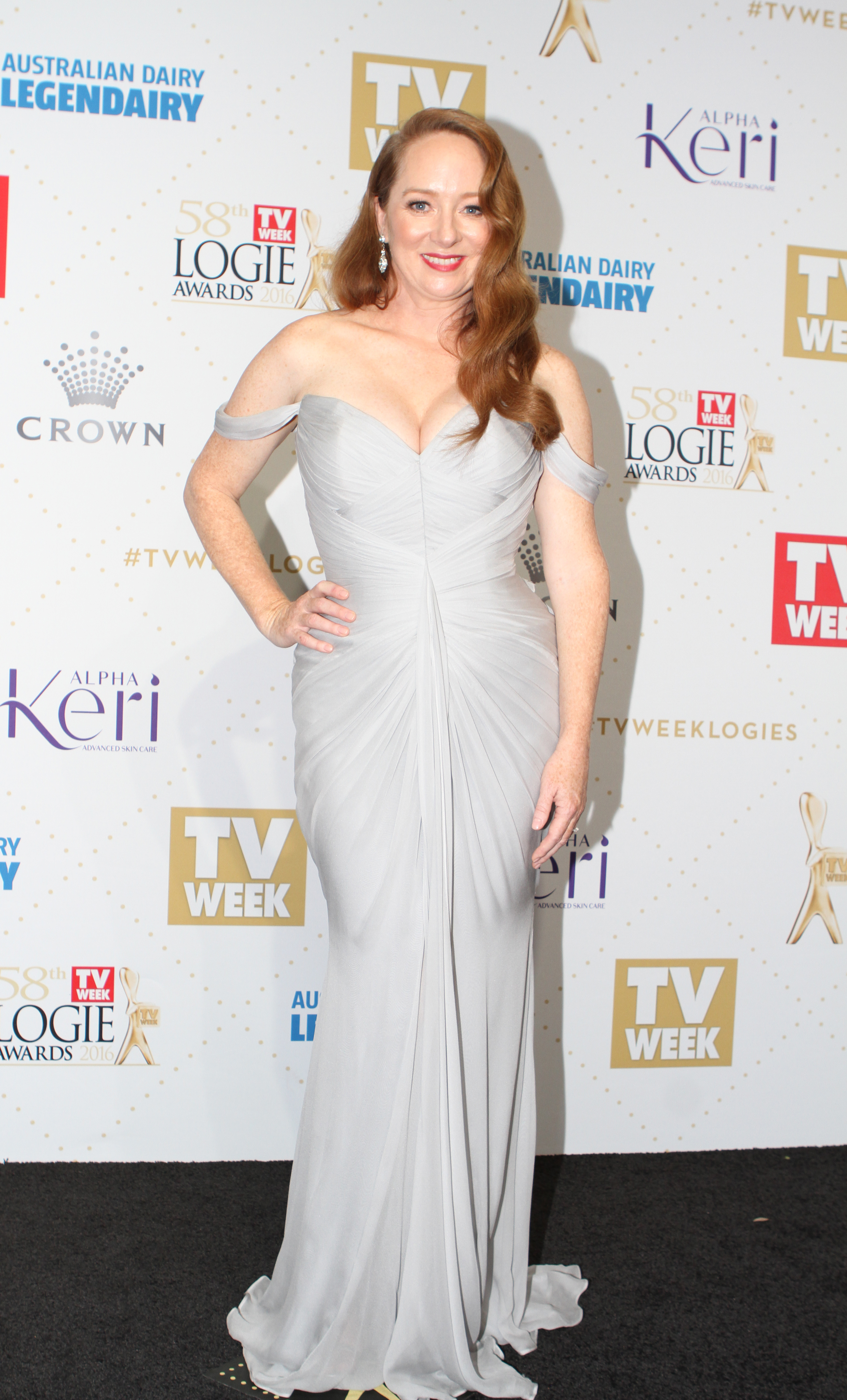 Mandy McElhinney arrives at TV Week Logie Awards